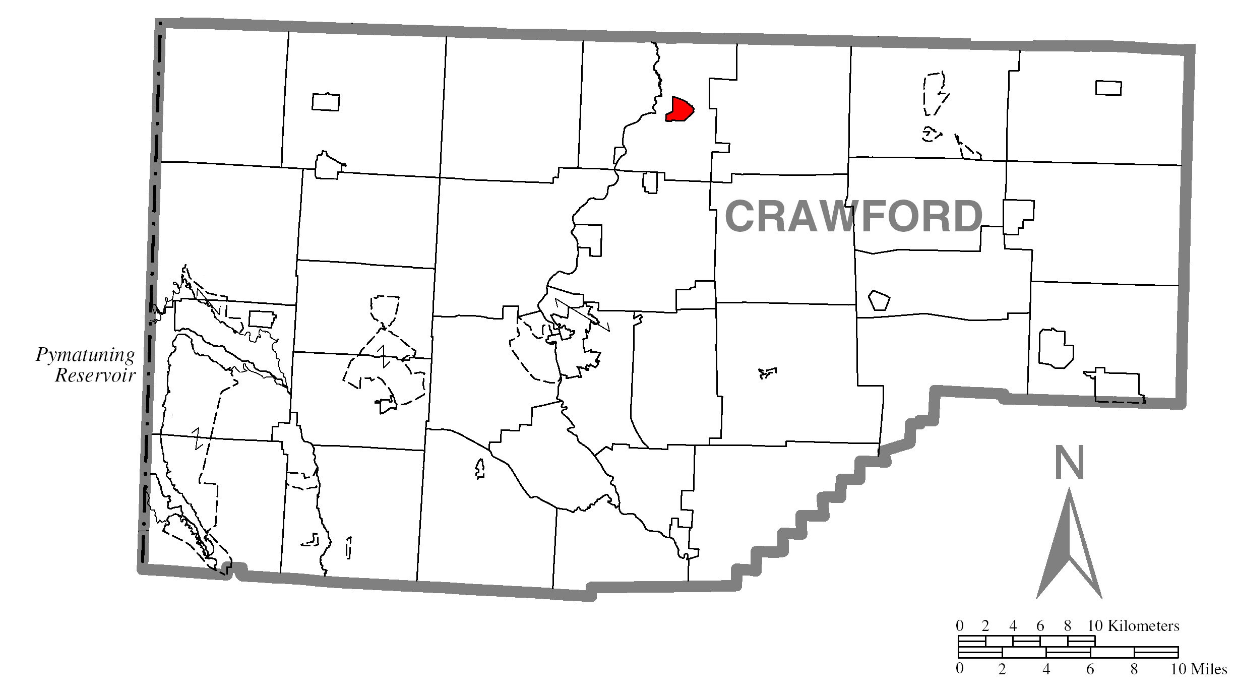 Map of Crawford County higlighting Cambridge Springs.